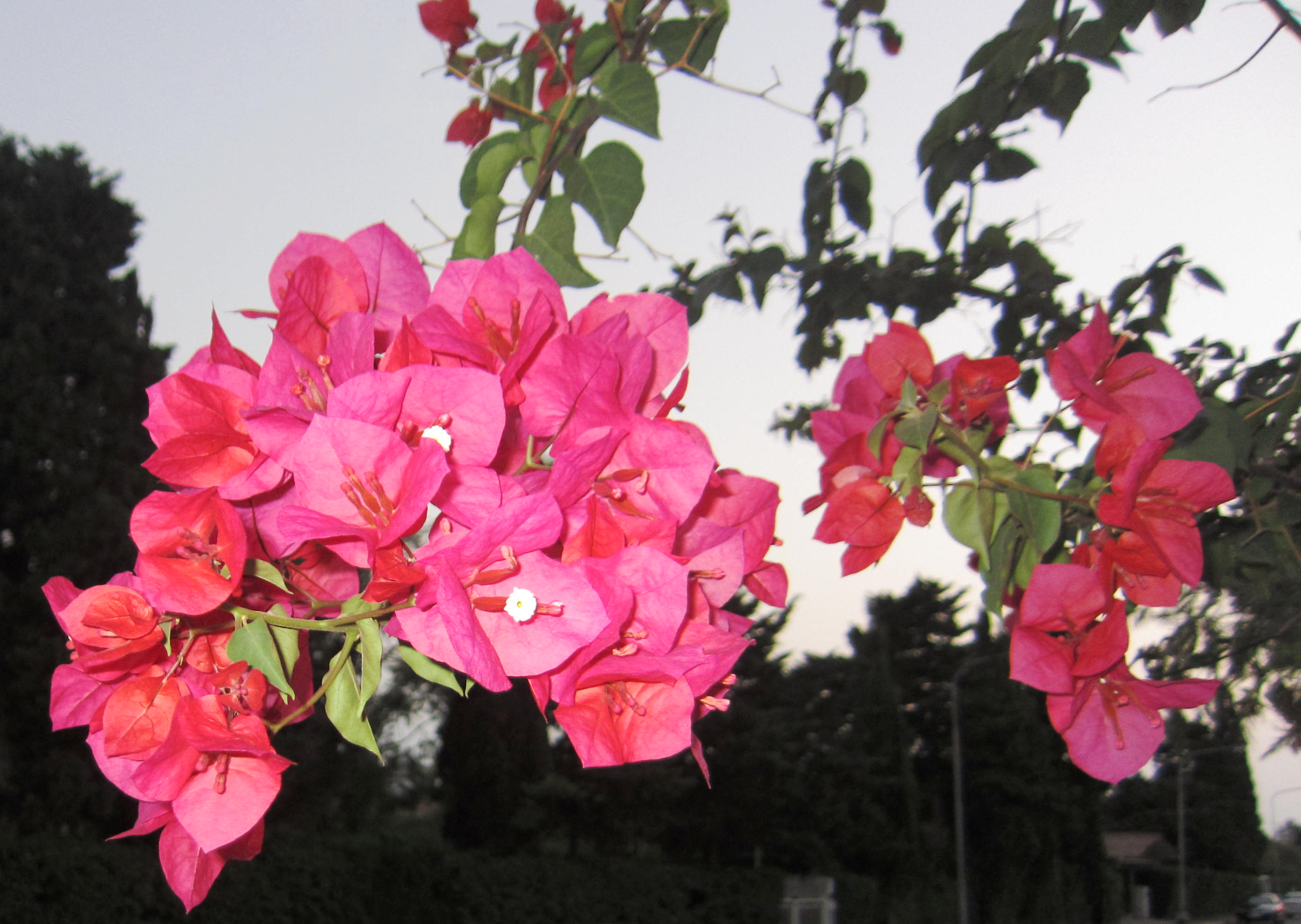 Bougainvillea flower in Khezershahr, Mazandaran, end of August